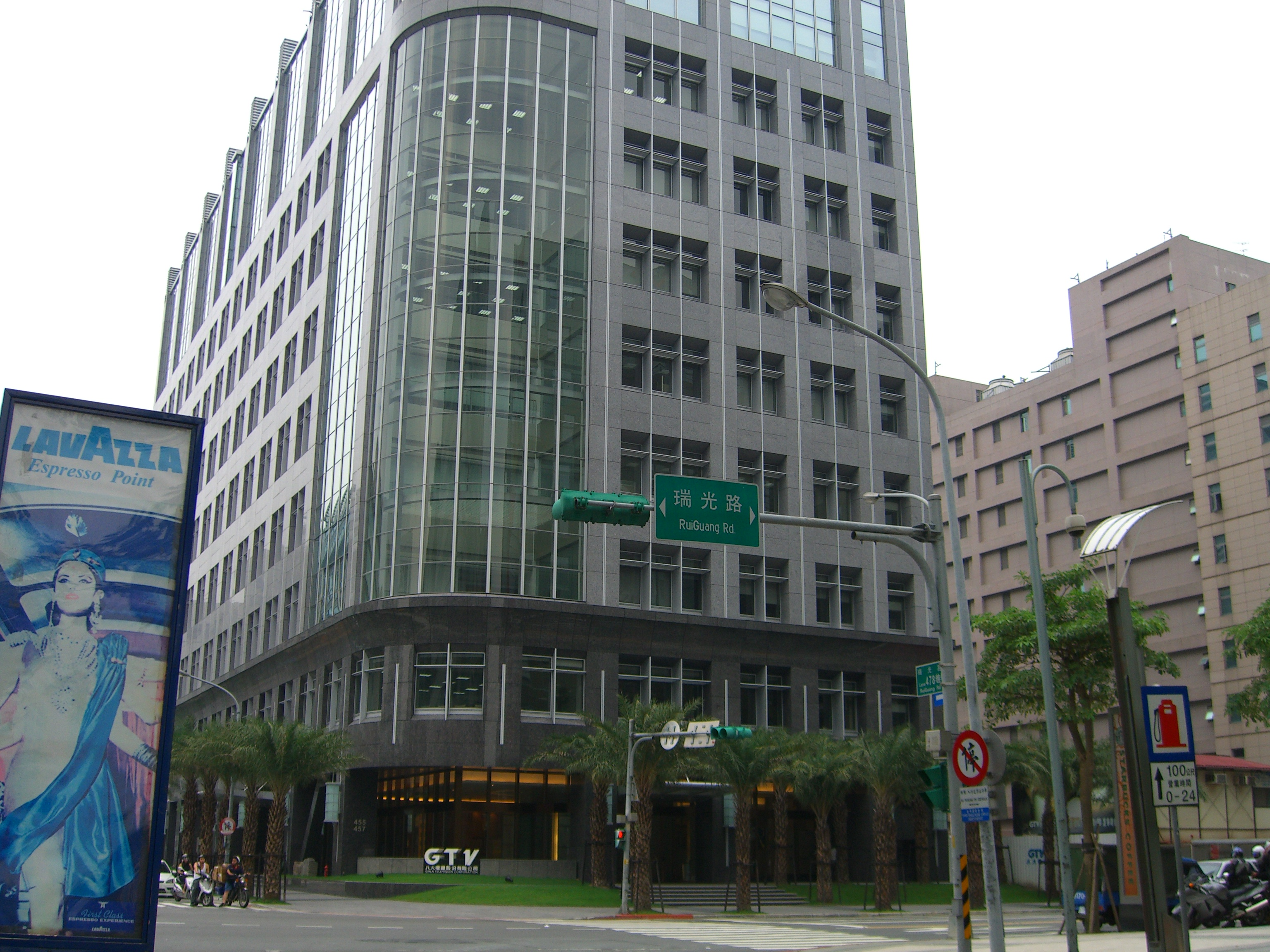 Gala Television headquarters.中文（台灣）: 八大電視總部大樓。